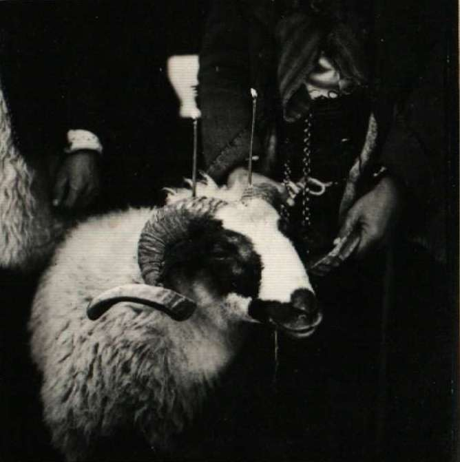 Macedonia